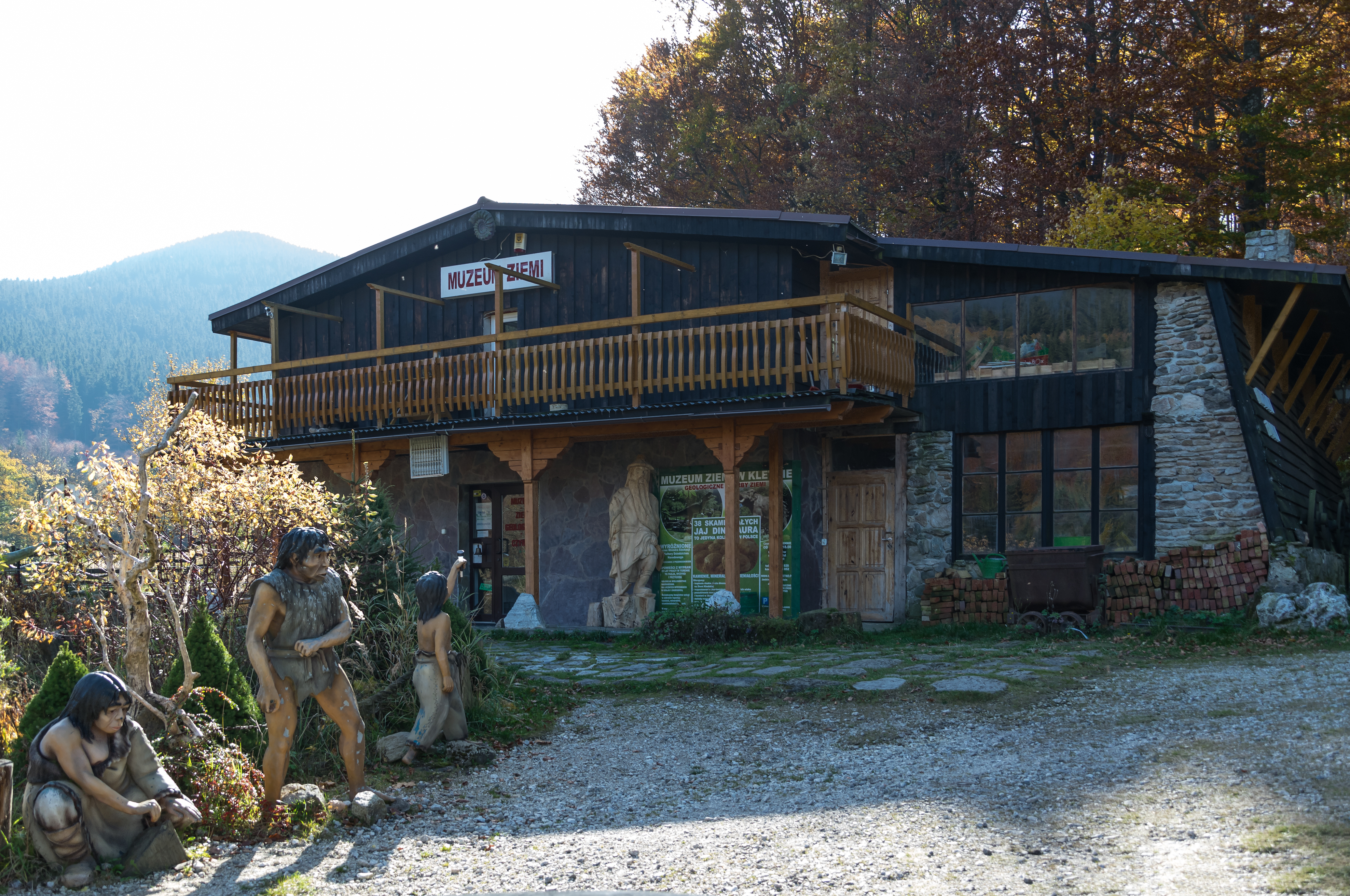 Museum of Earth in Kletno